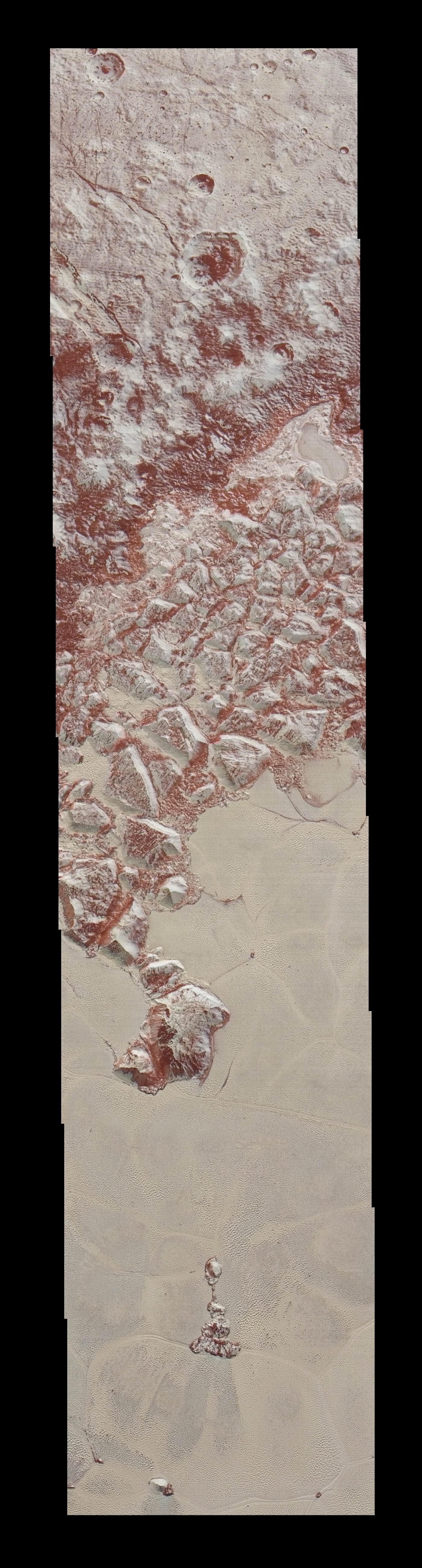 Pluto’s Varied Terrain. High-resolution images of Pluto taken by NASA's New Horizons spacecraft just before closest approach on July 14, 2015, reveal features as small as 270 yards (250 meters) across, from craters to faulted mountain blocks, to the textured surface of the vast basin informally called Sputnik Planum. Enhanced color has been added from the global color image. This image is about 330 miles (530 kilometers) across.